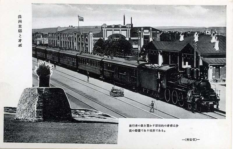 Old Manzhouli Railway Station Postcard